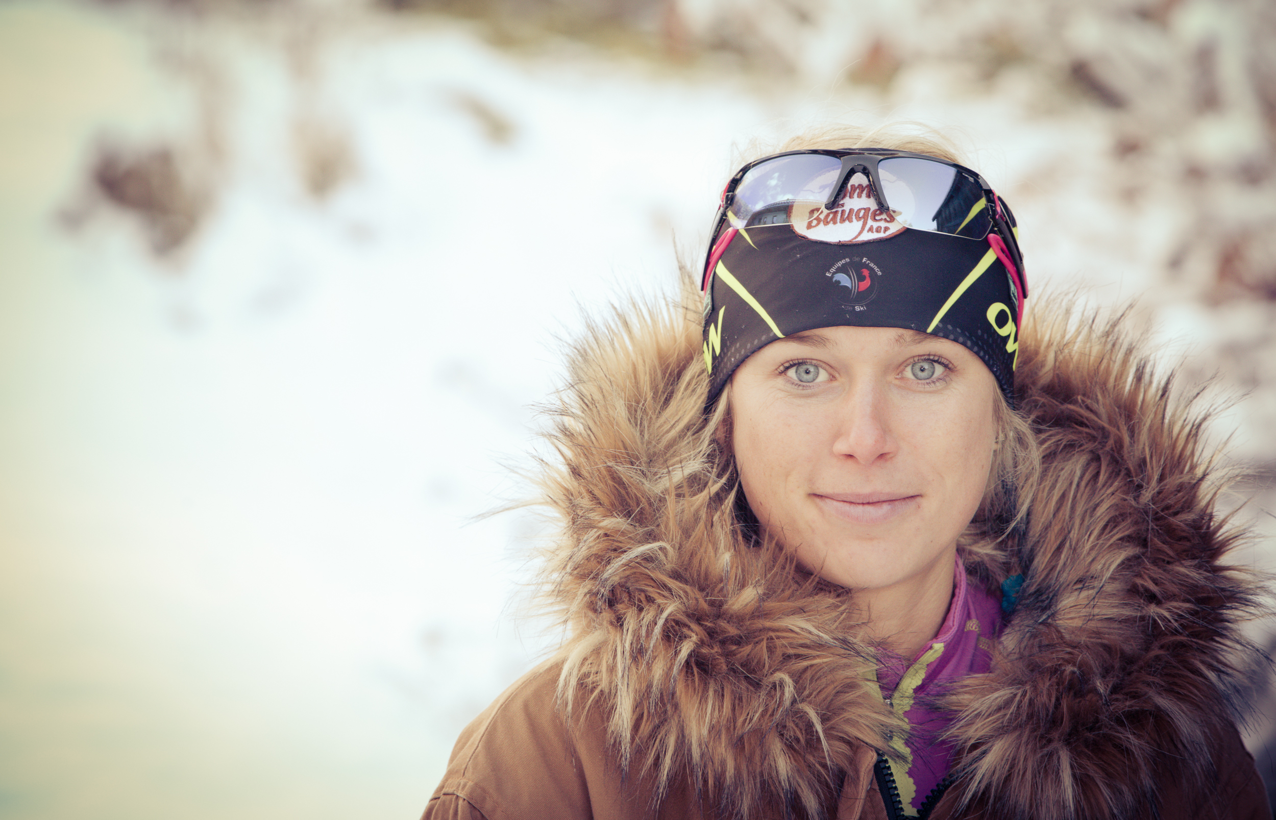 French athlete Marine Bolliet